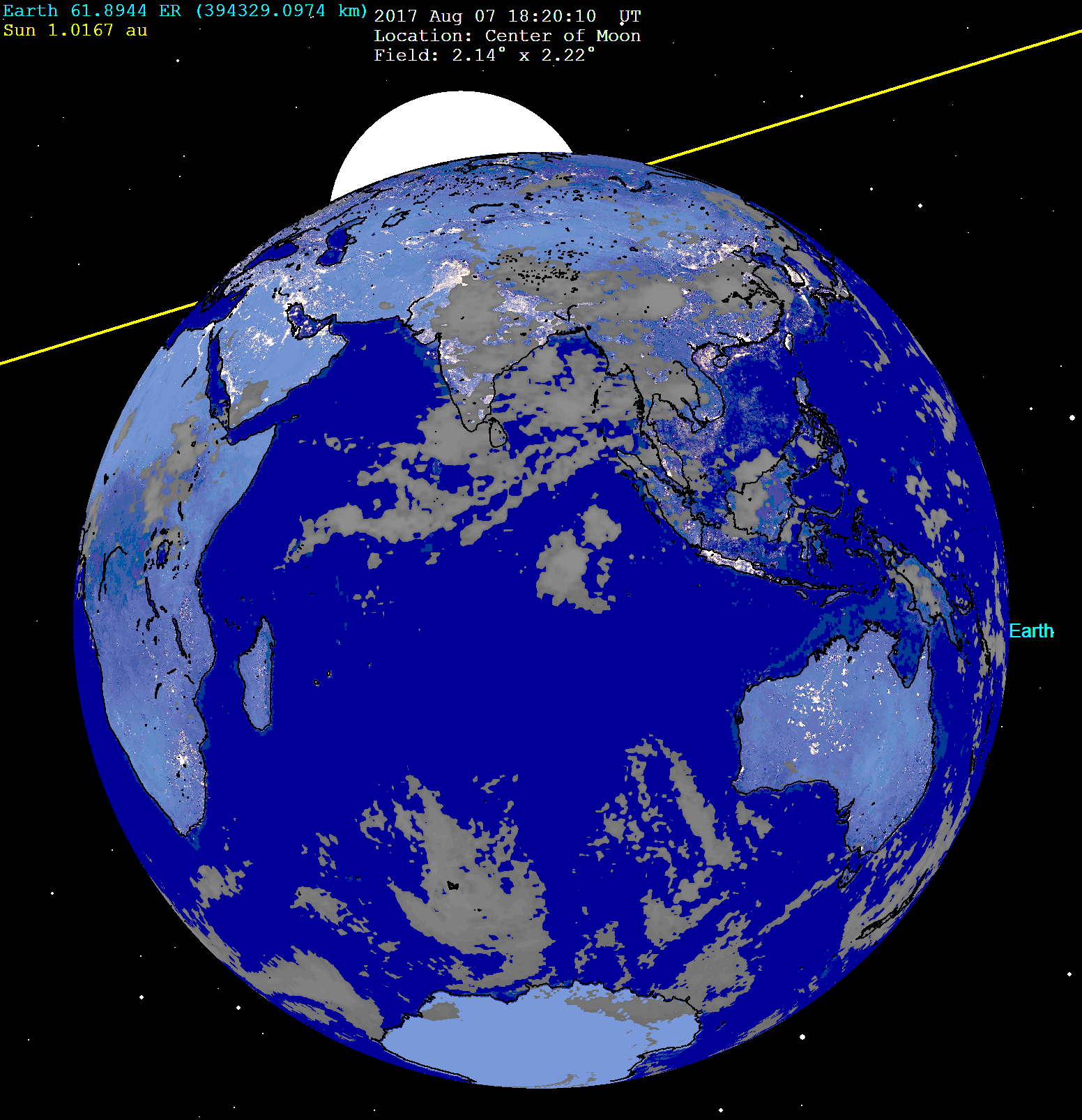 August 2017_lunar_eclipse view of earth The orientation of the earth as viewed from the center of the moon during greatest eclipse. thumb